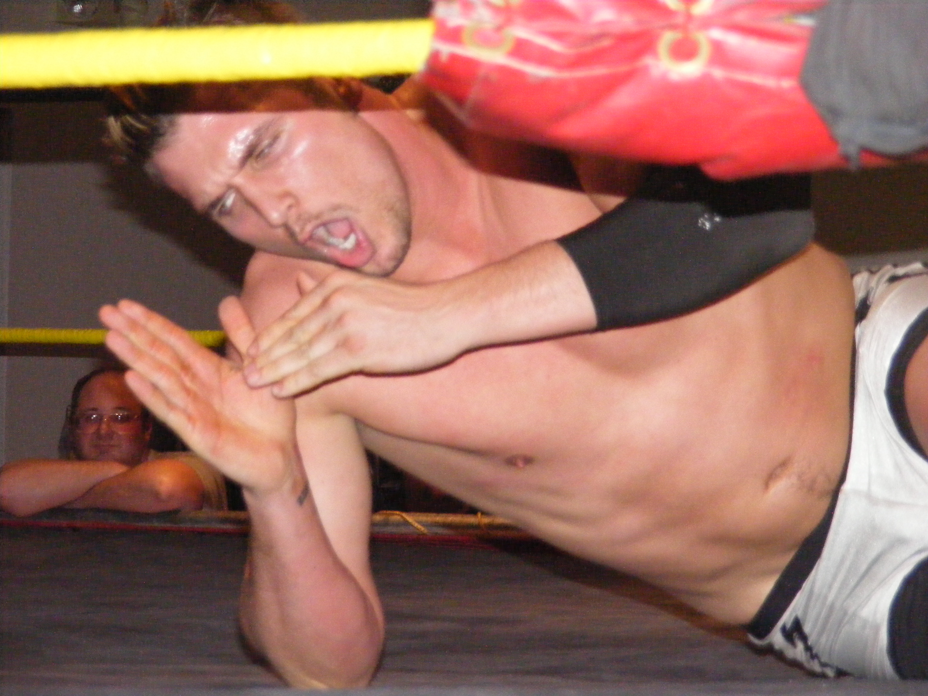 Luke Robinson at an MWF show in March 2008.